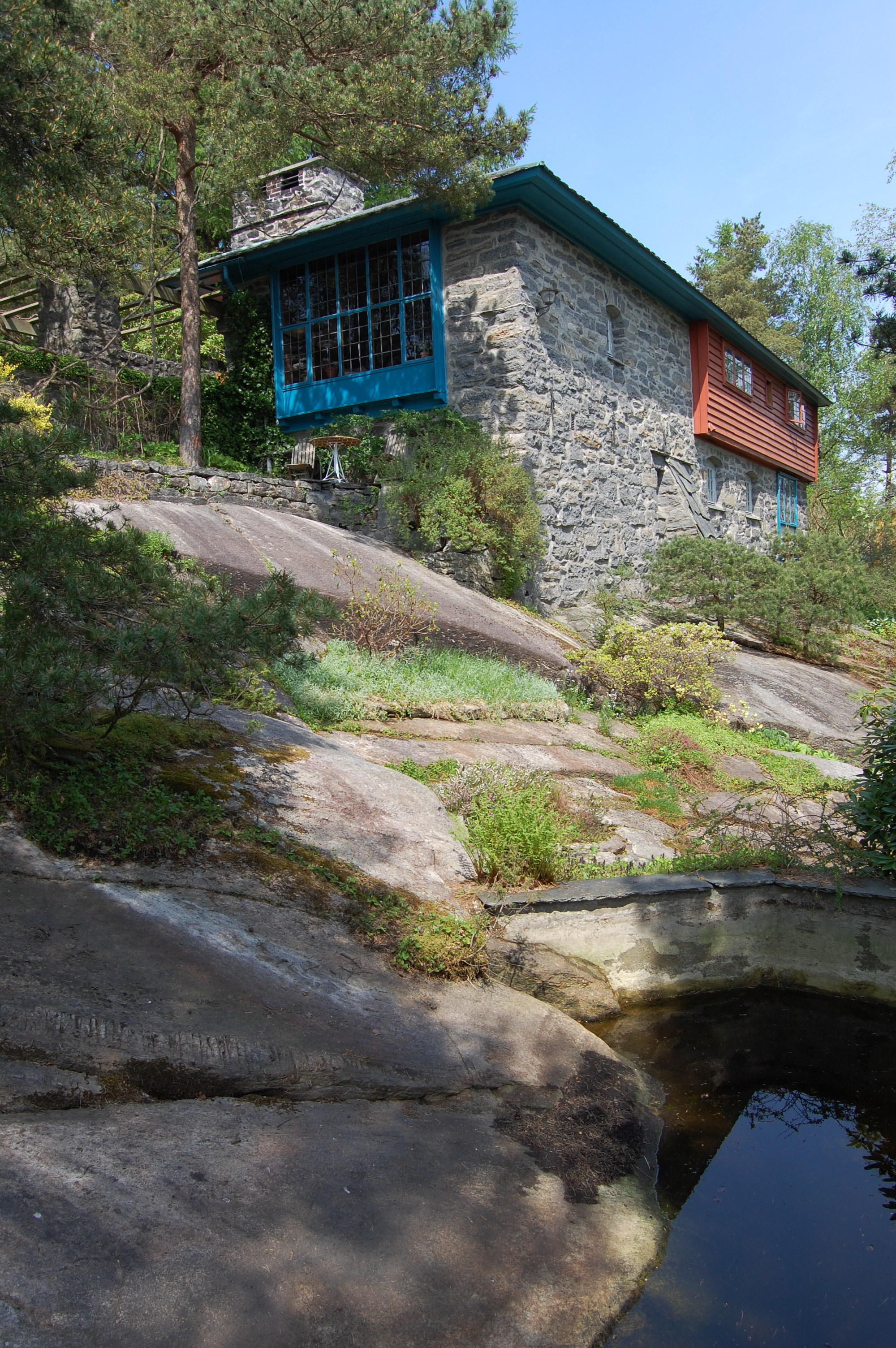 National heritage site in Bergen, Norway